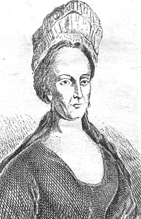 Sofia Báthory, grandmother of Francis II Rákóczi